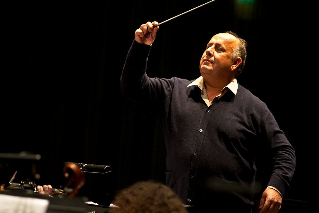 António Saiote conducting.